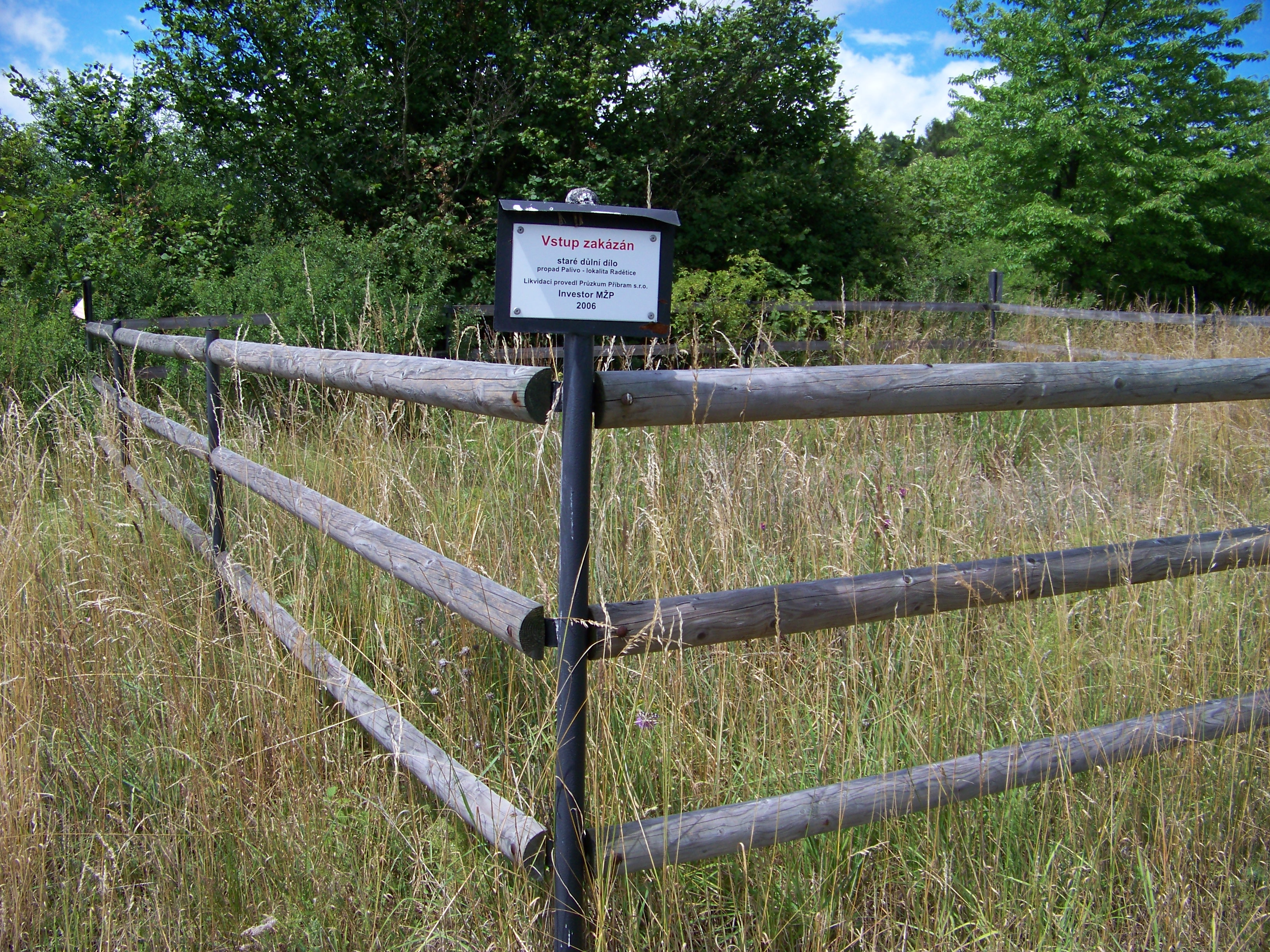 Radětice-Palivo, Příbram District, Central Bohemian Region, the Czech Republic. A mine slump.